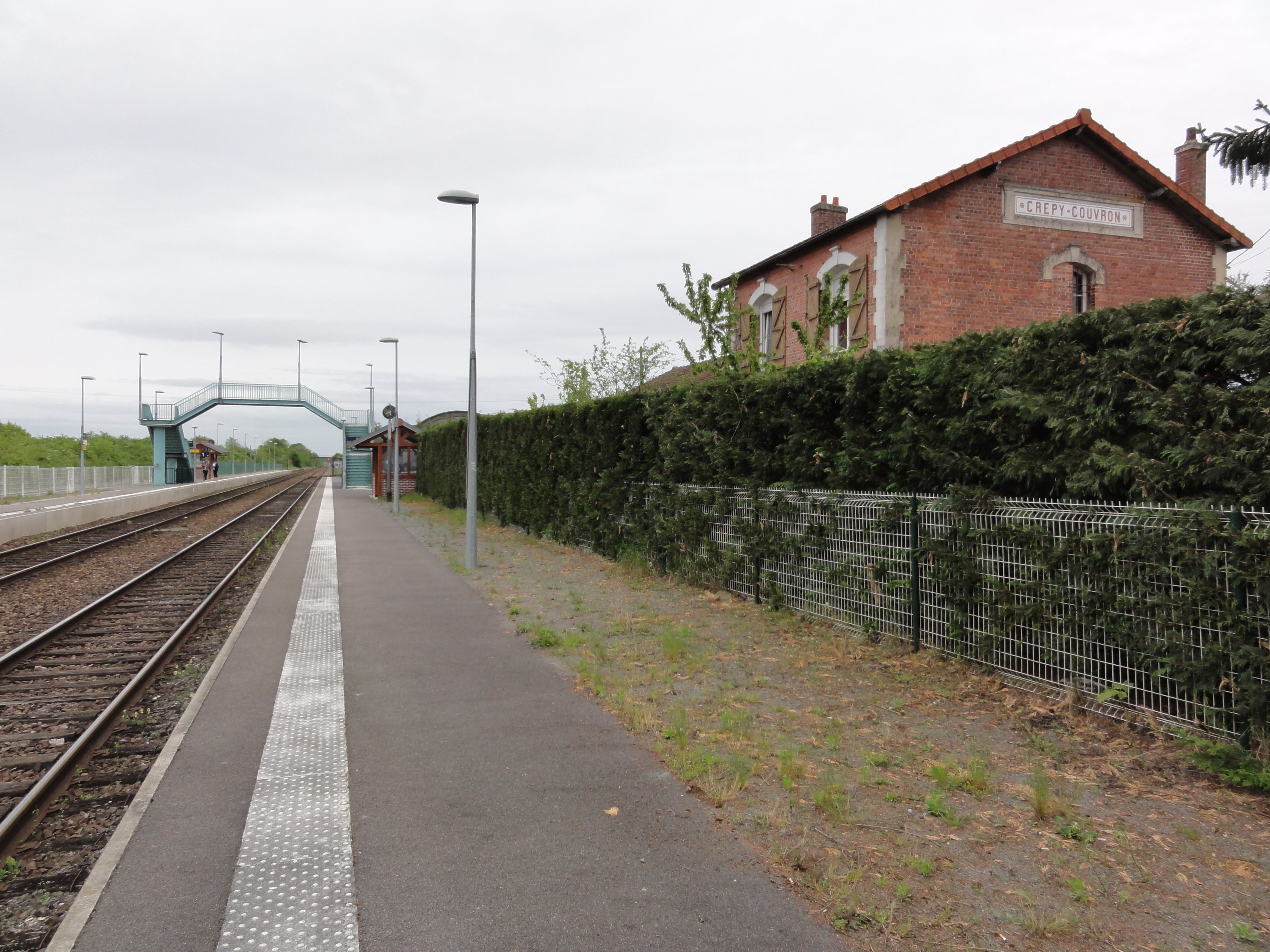 Crépy-Couvron (Aisne) la gare